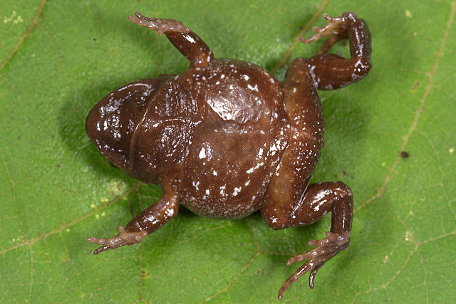 Bryophryne gymnotis